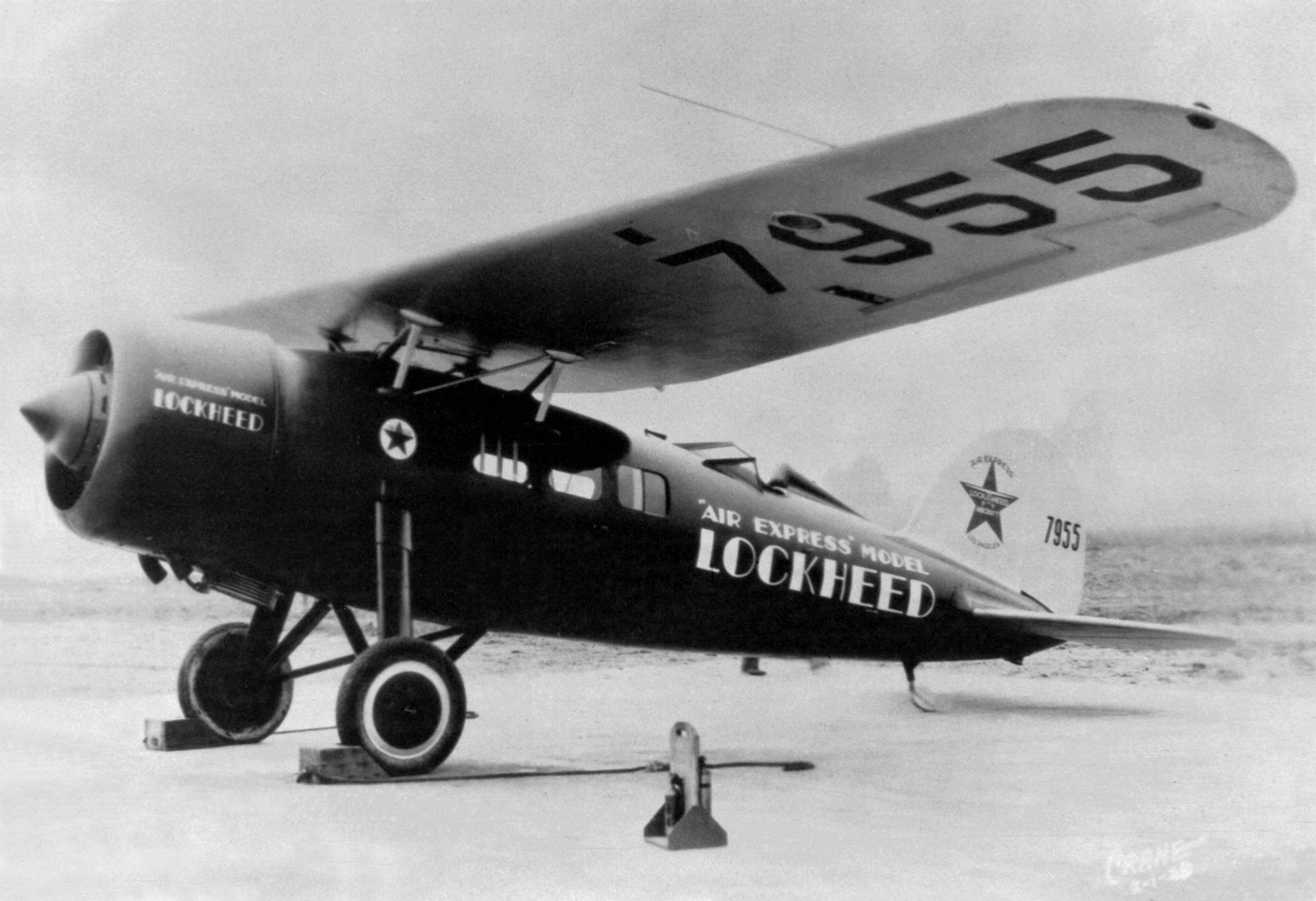 Lockheed Vega Air Express. Frank M. Hawks broke the transcontinental speed record in this plane. It was the first production aircraft with the NACA cowling, 1929.